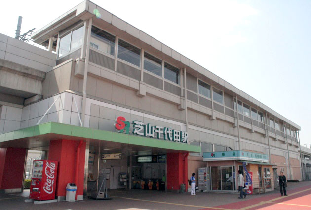 Shibayama-Chiyoda Station in Shibayama, Chiba, Japan